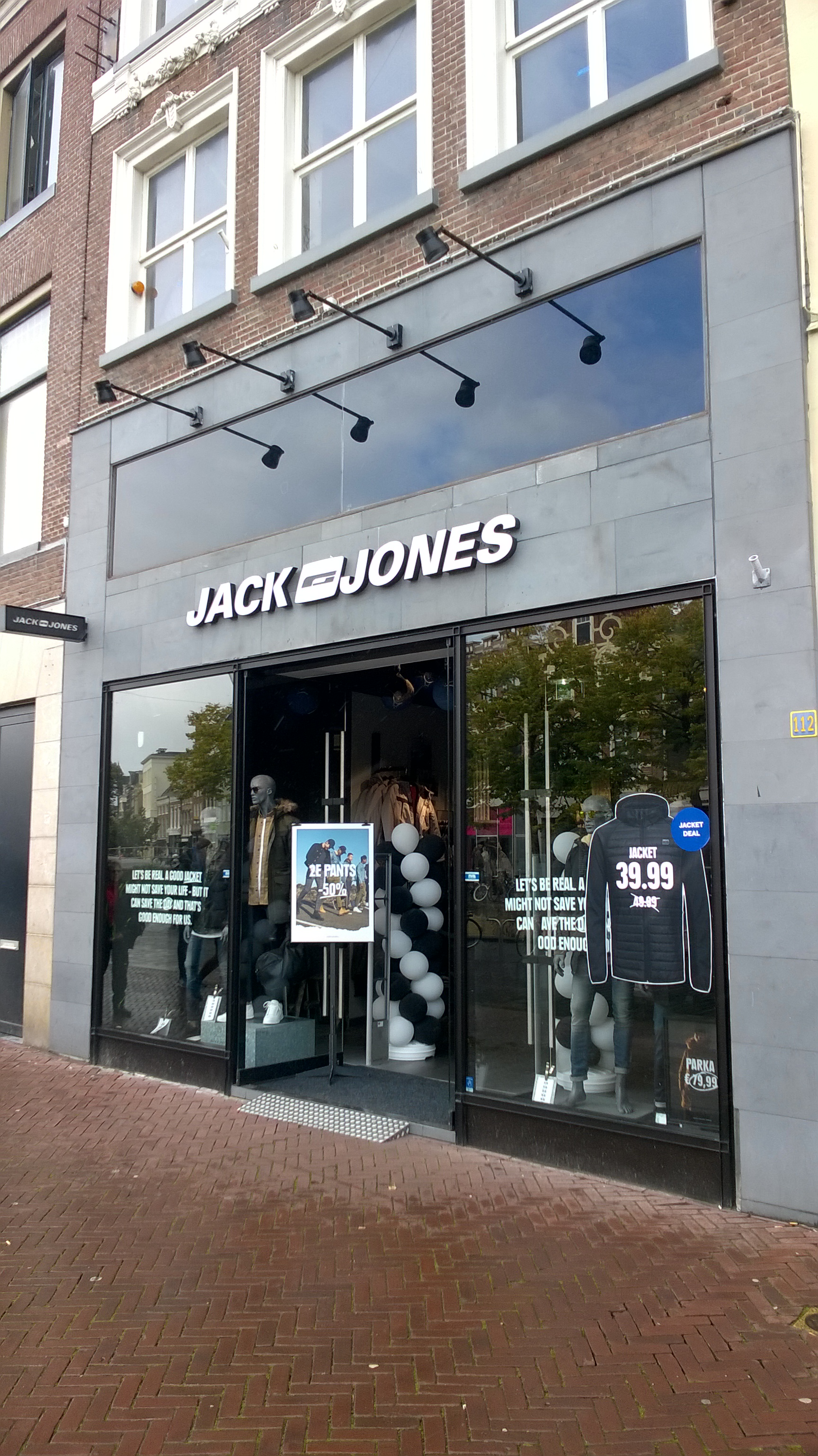 A small local Jack & Jones clothing shop in the Frisian city of Leeuwarden.